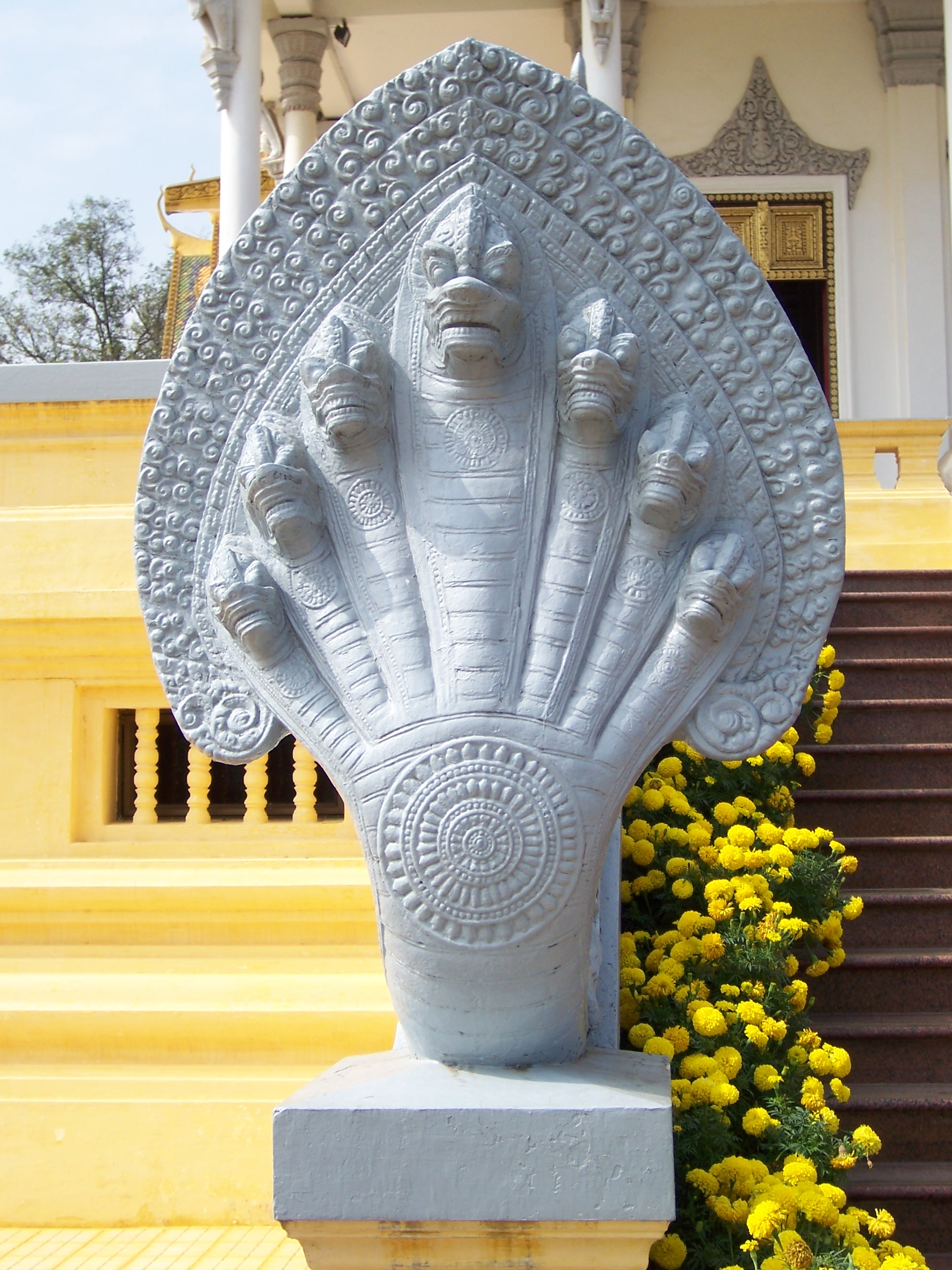 Seven-headed Naga sculpture at the steps leading up to the royal audience hall in Phnom Penh, Cambodia.